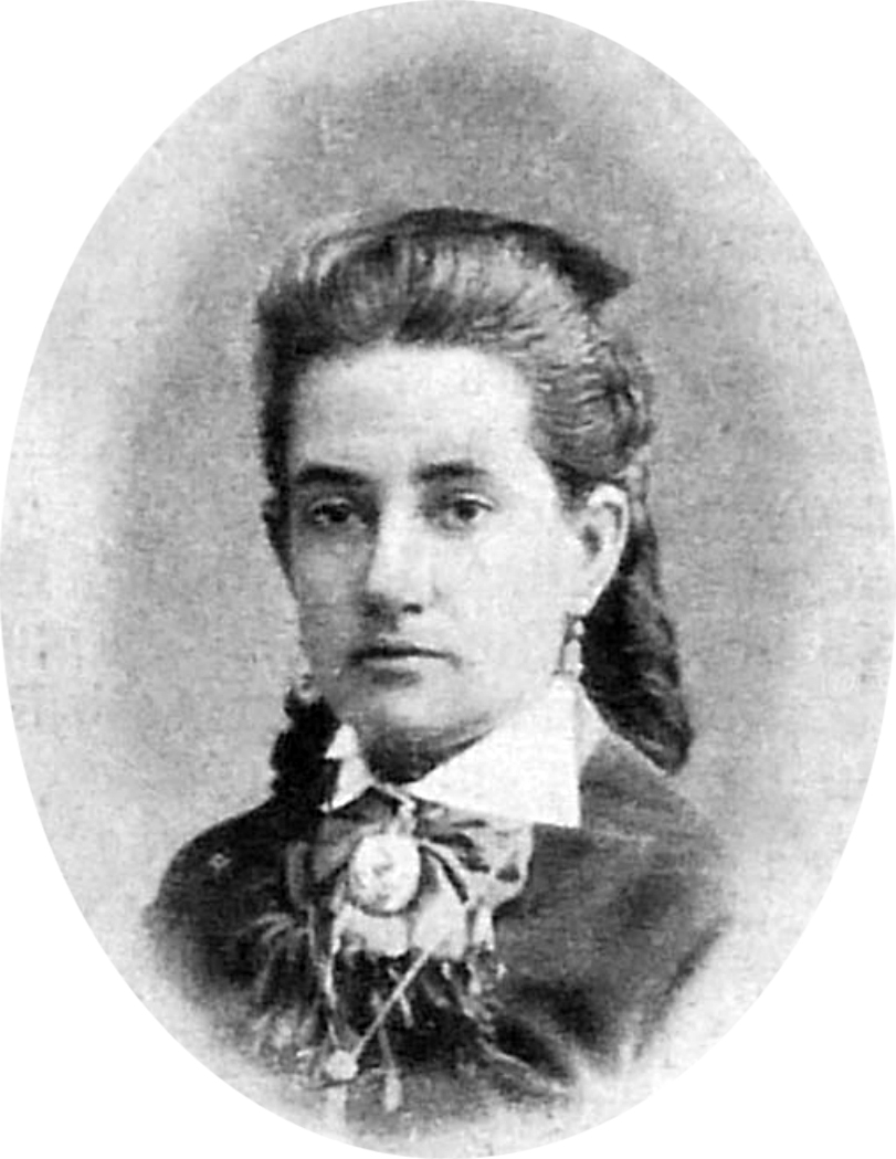 Christina D. Alchevskaya